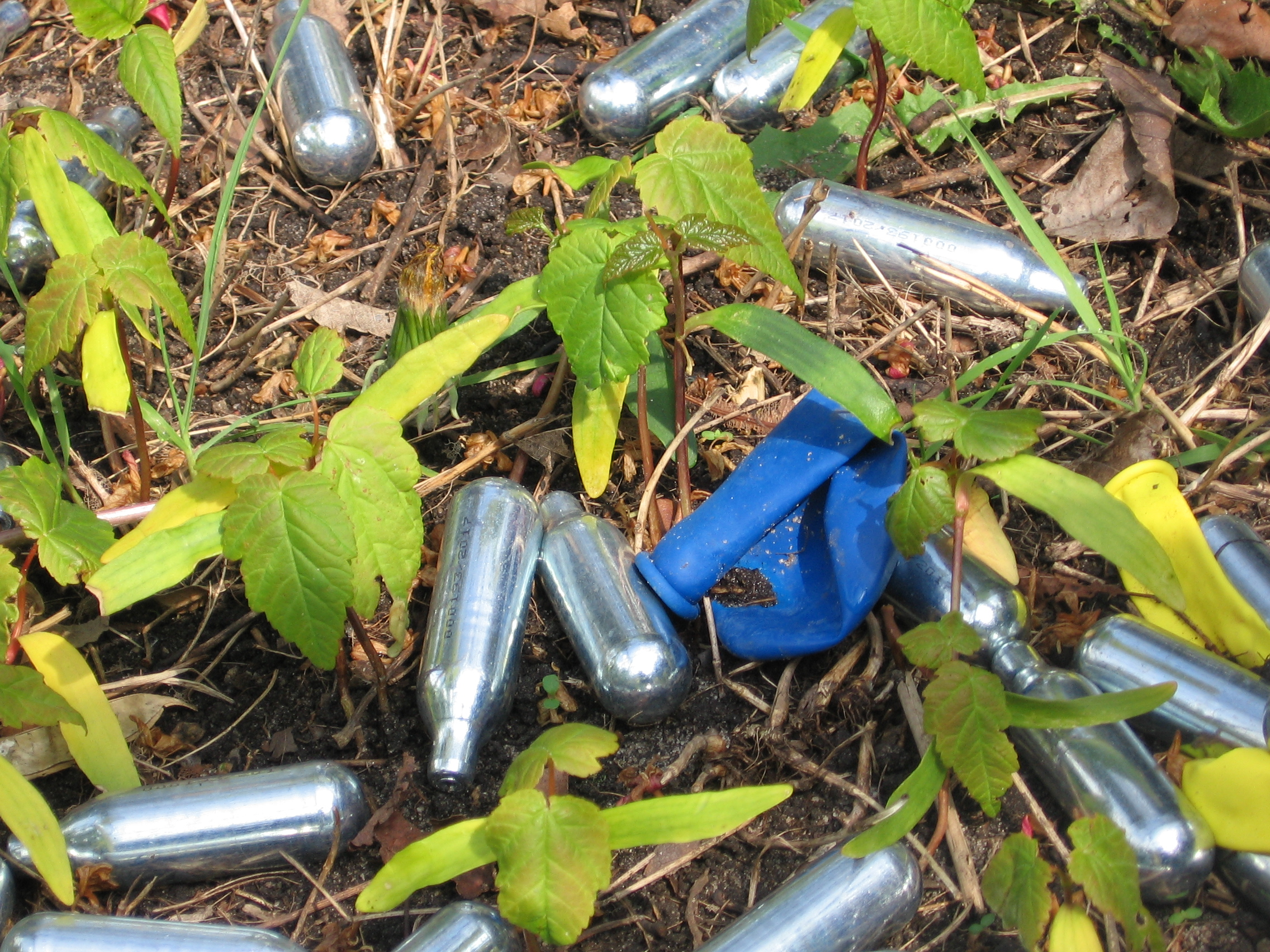 Nitrous oxide (N2O) whippits used for their euphoric and hallucinatory effect by Dutch youngsters near a secondary school in Utrecht-West, The Netherlands.